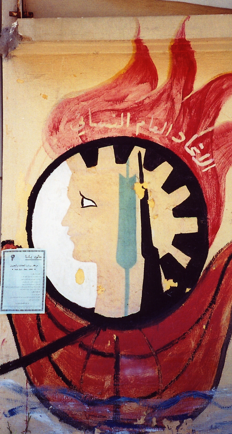 Symbol of the General Womens Union, painted on the wall of its Tartous office, Syria.